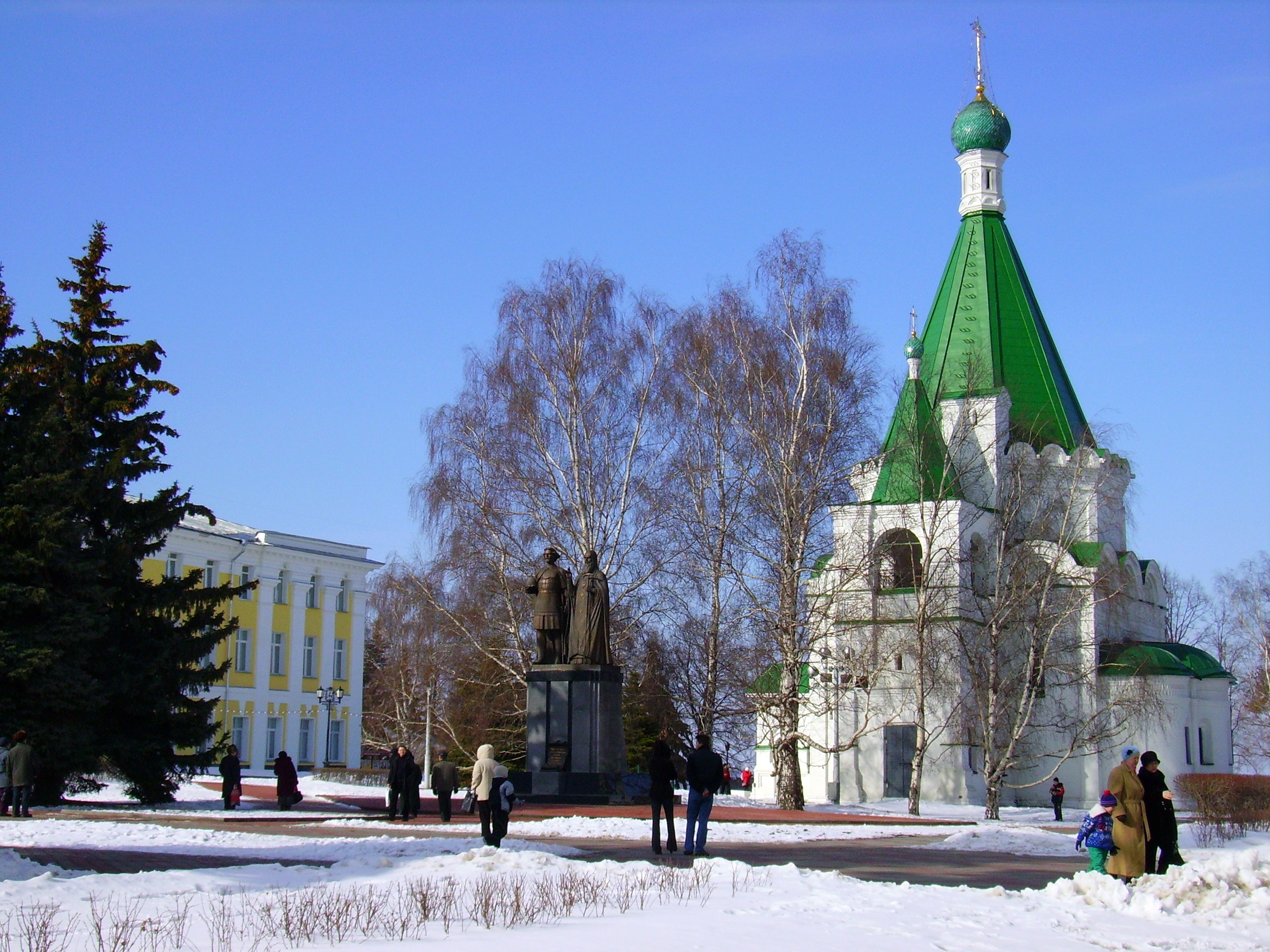 Archangel Cathedral and Monument to Prince Yury Vsevolodovich and Bishop Simon Suzdalsky